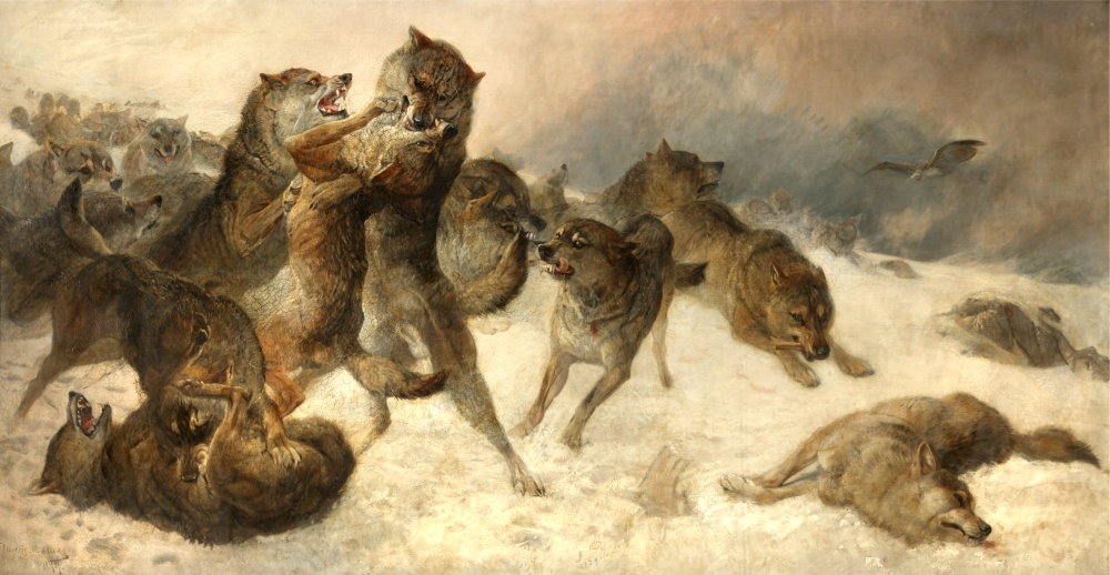 "The Struggle for Existence", Wolves fighting